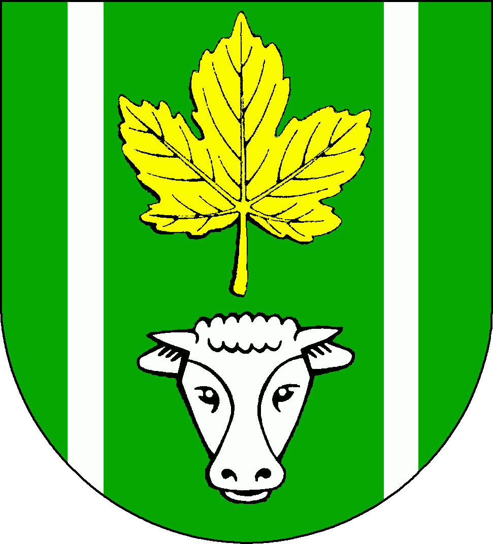 Coat of arms of the municipality Kaisborstel in Schleswig-Holstein, Germany.